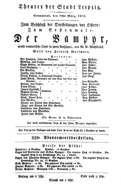 Scan of a long out of copyright opera poster to Marschner's Der Vampyr